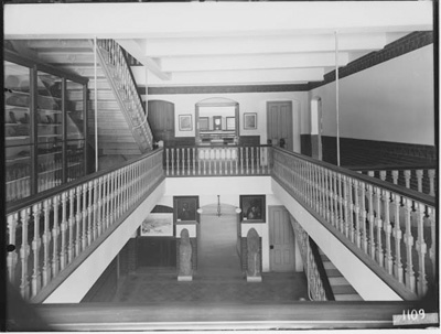 Peabody Museum entrance hallway. Courtesy of the Peabody Museum of Archaeology and Ethnology, Harvard University, PM 2004.24.1109.